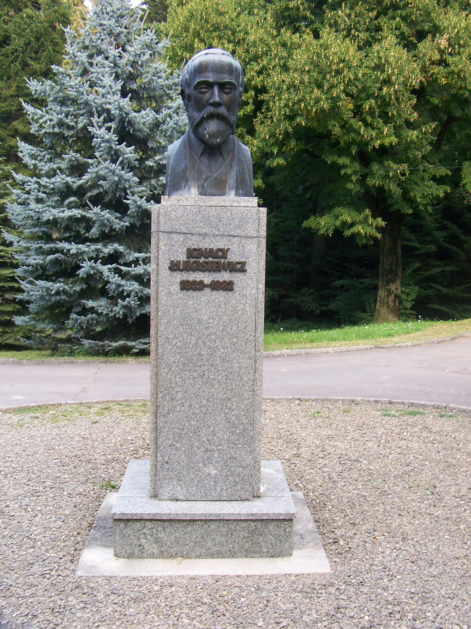 Monument of Ignacy Łukasiewicz in Museum of Oil and Gas Industry in Bóbrka, Poland